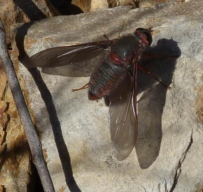 Comptosia insignis Walker, 1849, female, Black Mountain, Canberra, ACT, 22 November 2010 This was a very large fly (forewing length around 20mm).